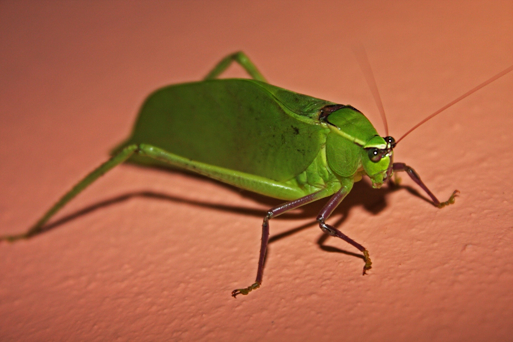 Various locations in Sancti Spíritus province.